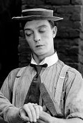 Buster Keaton wearing his trademark porkpie hat in the 1922 film The Blacksmith Available at